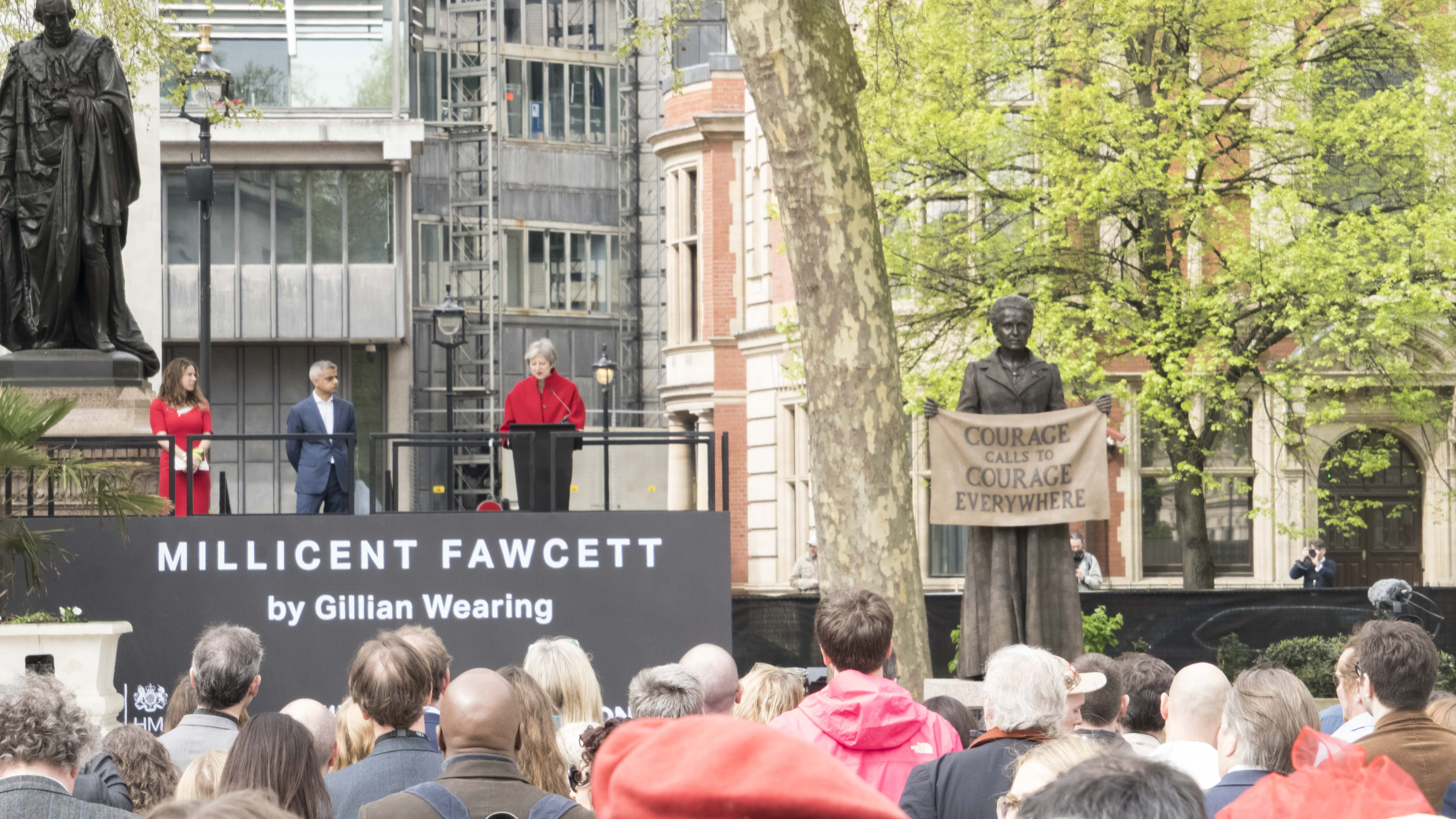 Unveiling of the statue of Suffragette Millicent Fawcett in Parliament Square, attended by Mayor of London Sadiq Khan and Prime Minister Theresa May.